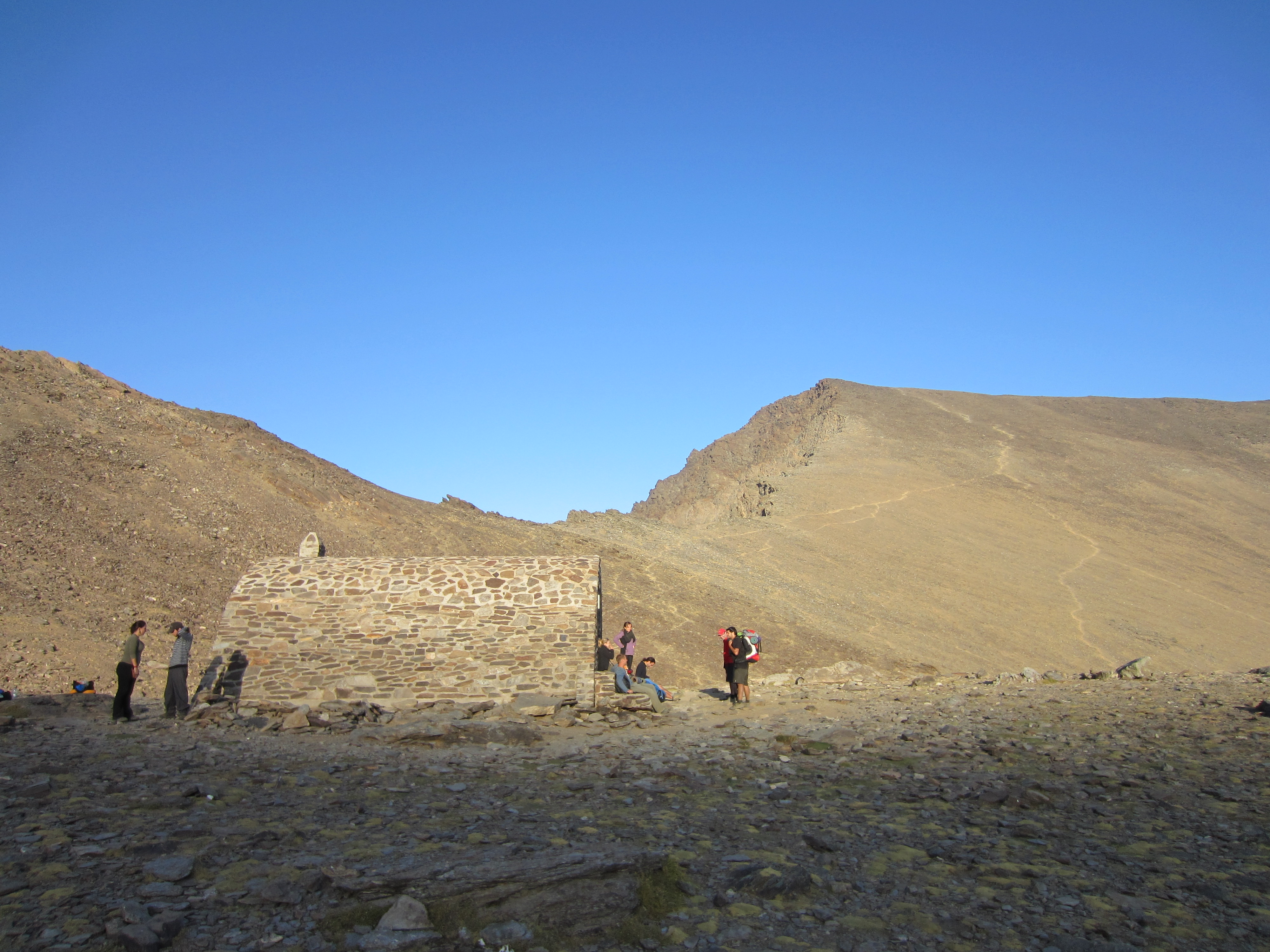 West-Face of Pico Mulhacén 3479 m (Sierra Nevada, Spain)